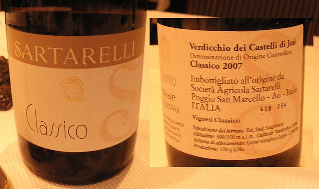 Bottle of Verdicchio dei Castelli di Jesi Classico